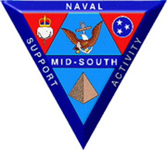 Official seal of Naval Support Activity Mid-South